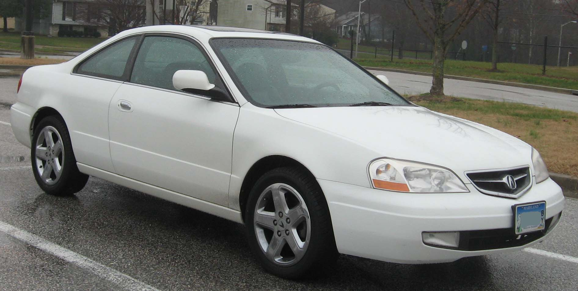 2001-2003 Acura CL photographed in Fort Washington, Maryland, USA.